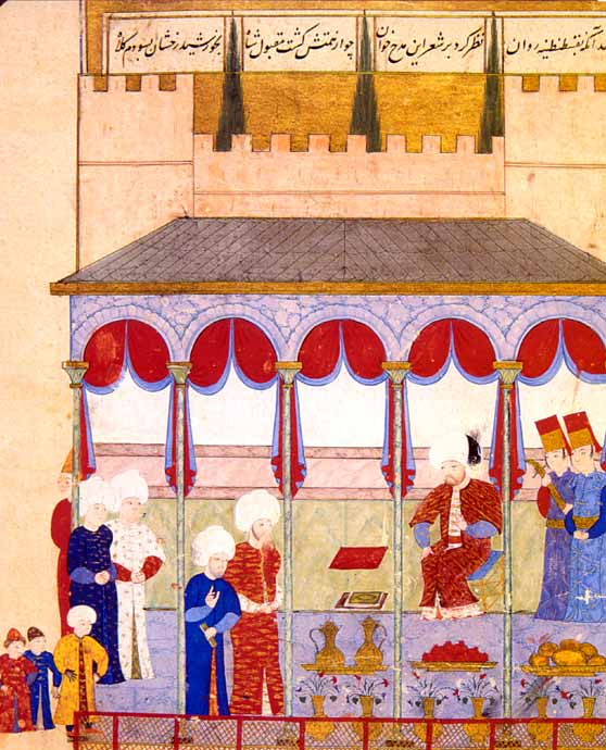 Sultan Selim II receiving Seyyid Lokman in the Çorlu-Palace in Edirne. Seyyid Lokman was a famous writer, who was known for the production of the "şahname“, or royal books. Ottoman miniature painting, from the "Şahname-ı Selim Han". Topkapı Sarayı Müzesi, Istanbul.